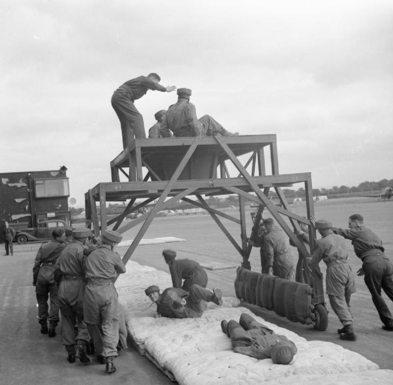 Paratroops in Training at Ringway, Near Manchester, England, August 1942 Recruits of the 6th Battalion, Welch Regiment being taught how to drop through a moving aperture.